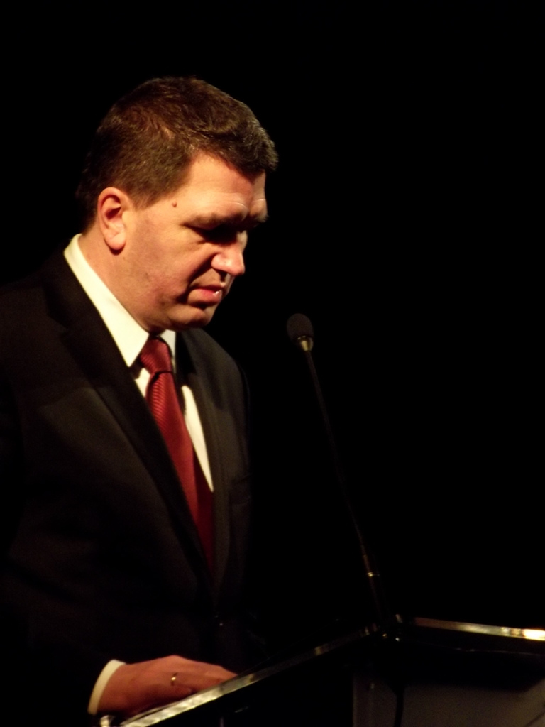 Mayor of Oświęcim Janusz Chwierut during the 64th anniversary of the liberation of Auschwitz concentration camp.